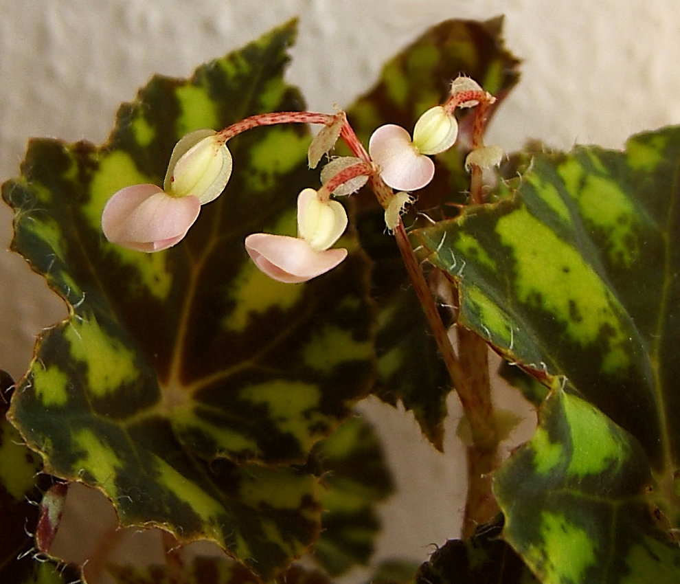 eyelash begonia, female flowers